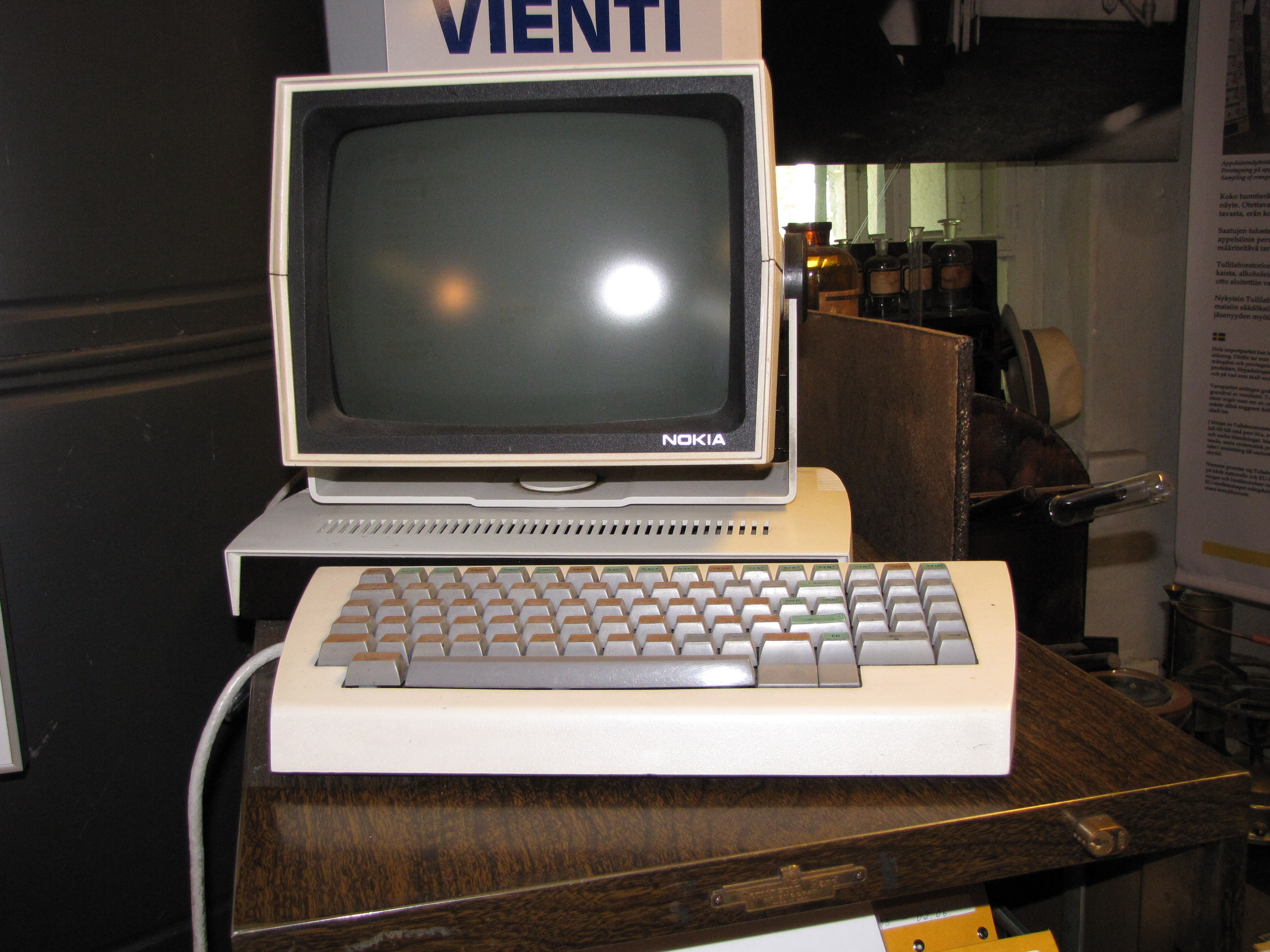 Display and keyboard of the Nokia Mikko minicomputer from 1980.